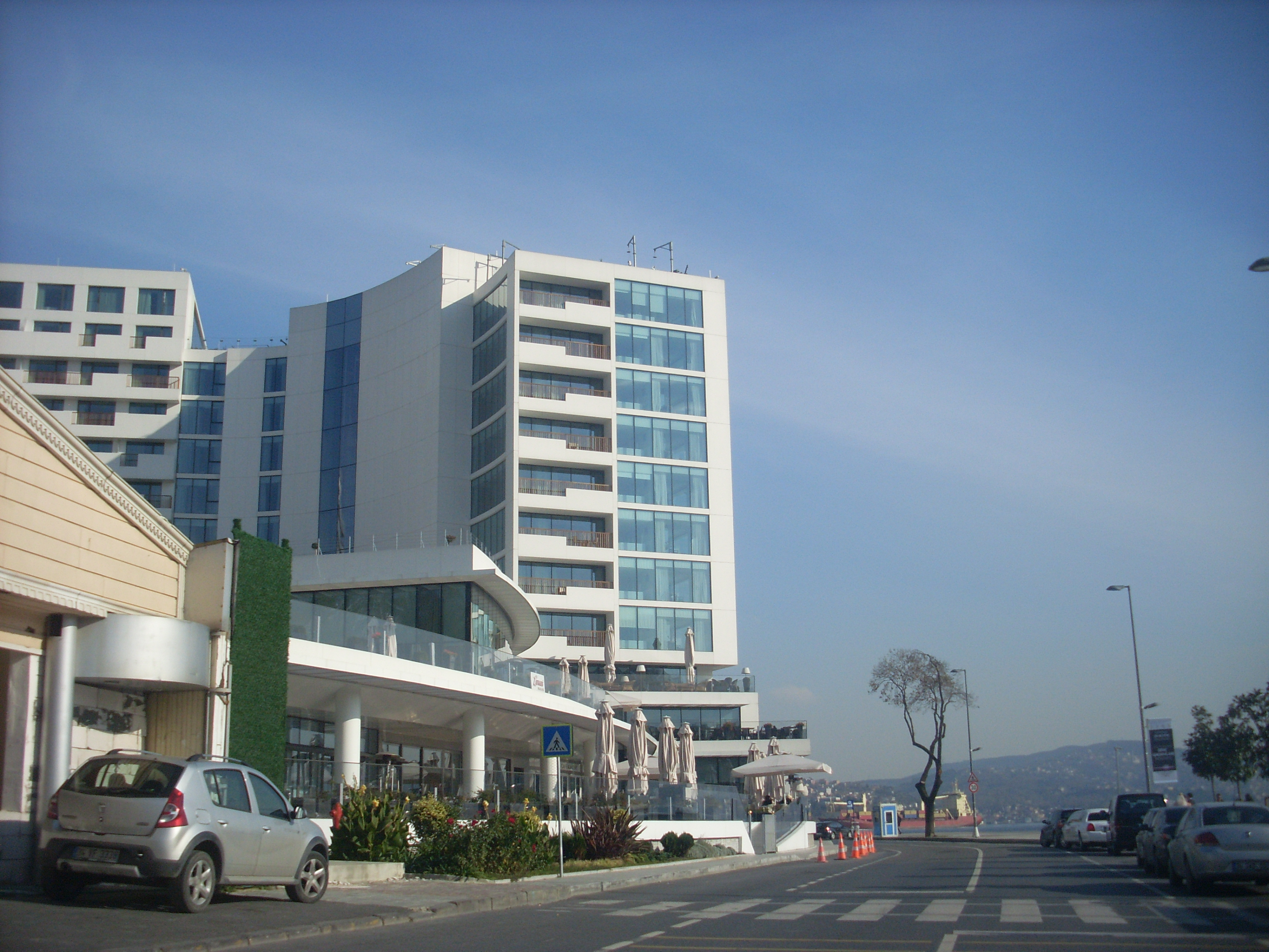 İstanbul - Tarabya, Sarıyer r1 - Nov 2013